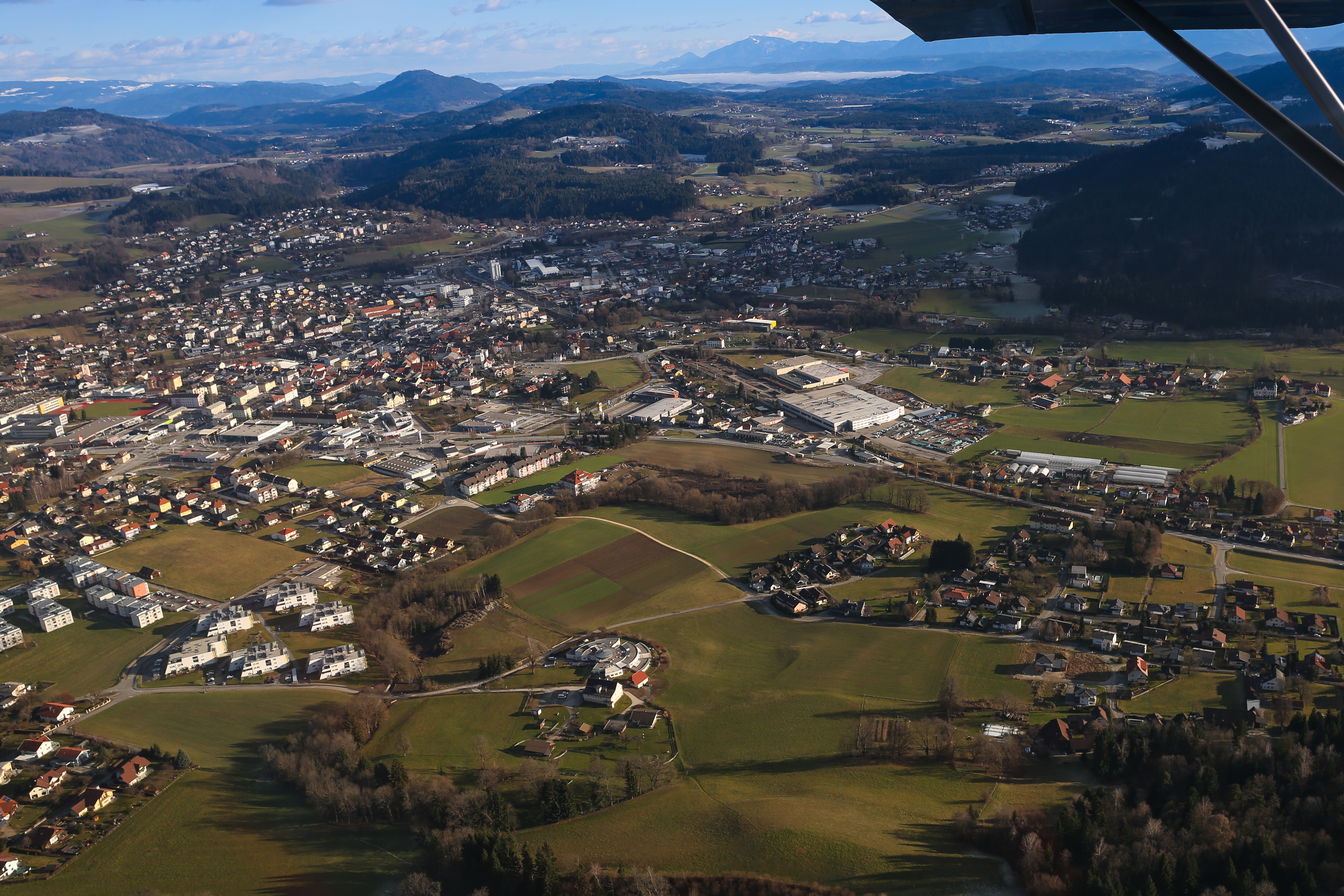 View of Feldkirchen in Carinthia / Austria / EU. Aerial photograph of a Aeronca L-16 7BCM.